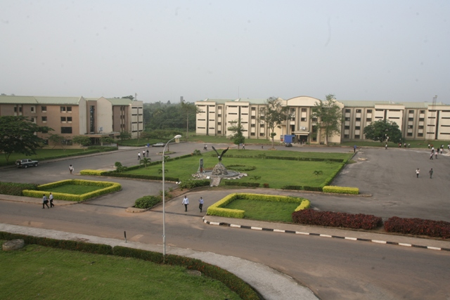 Covenant University Students Halls of Residence